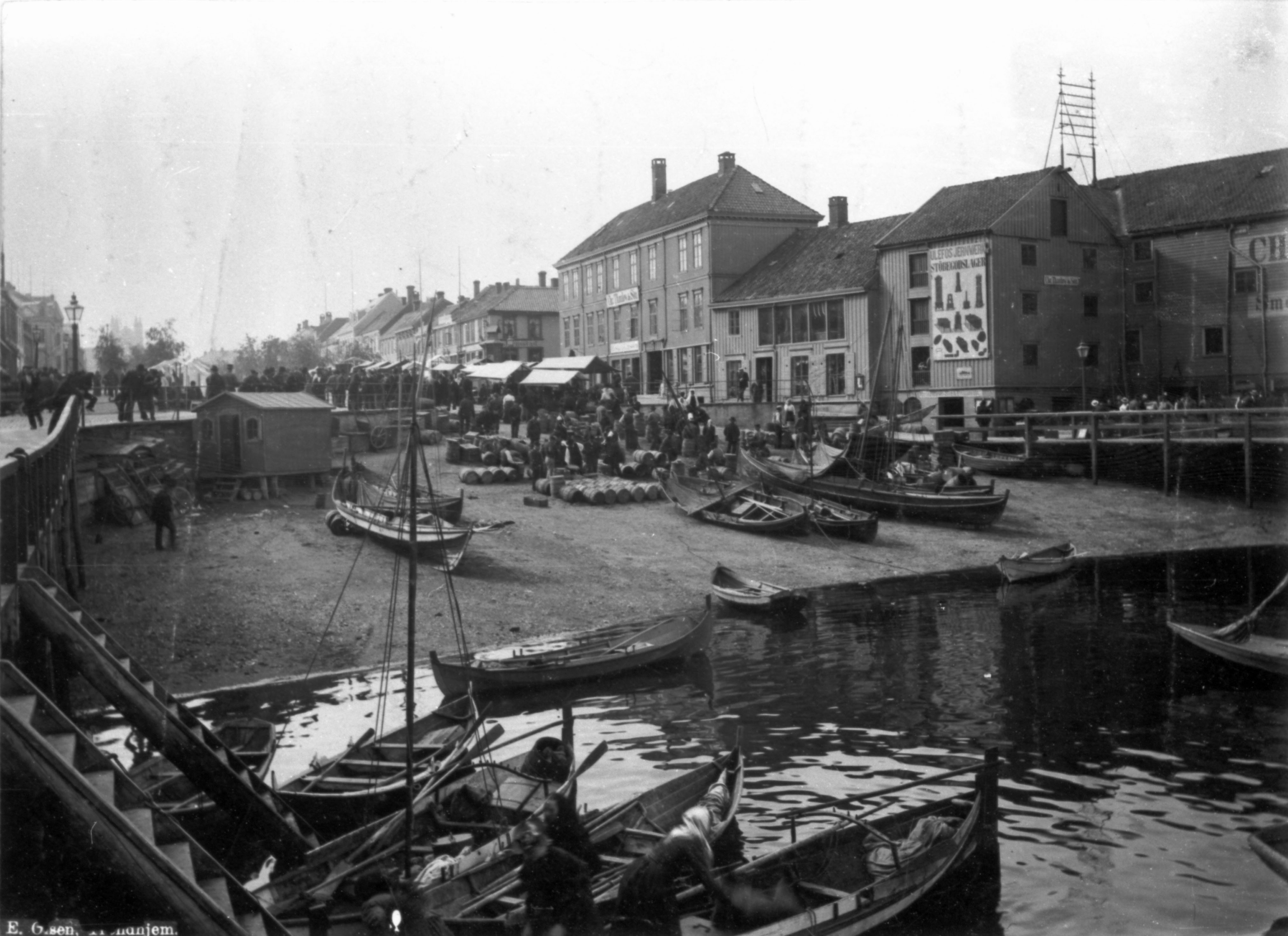 Format: 35 mm sort/hvitt negativ Film: Ilford pan f extra fine grain panchromatic Dato / Date: Ukjent Fotograf / Photographer: Erik Olsen Sted / Place: Ravnkloa, Trondheim Wikipedia: Ravnkloa Eier / Owner Institution: Trondheim byarkiv, The Municipal Archives of Trondheim Arkivreferanse / Archive reference: Tor.H43.P3.F9023, film 174 Merknad: Fra Byantikvarens negativsamling.